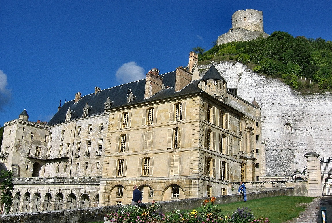 Photo by Harry Puncec, shot in Sept. of 2004.